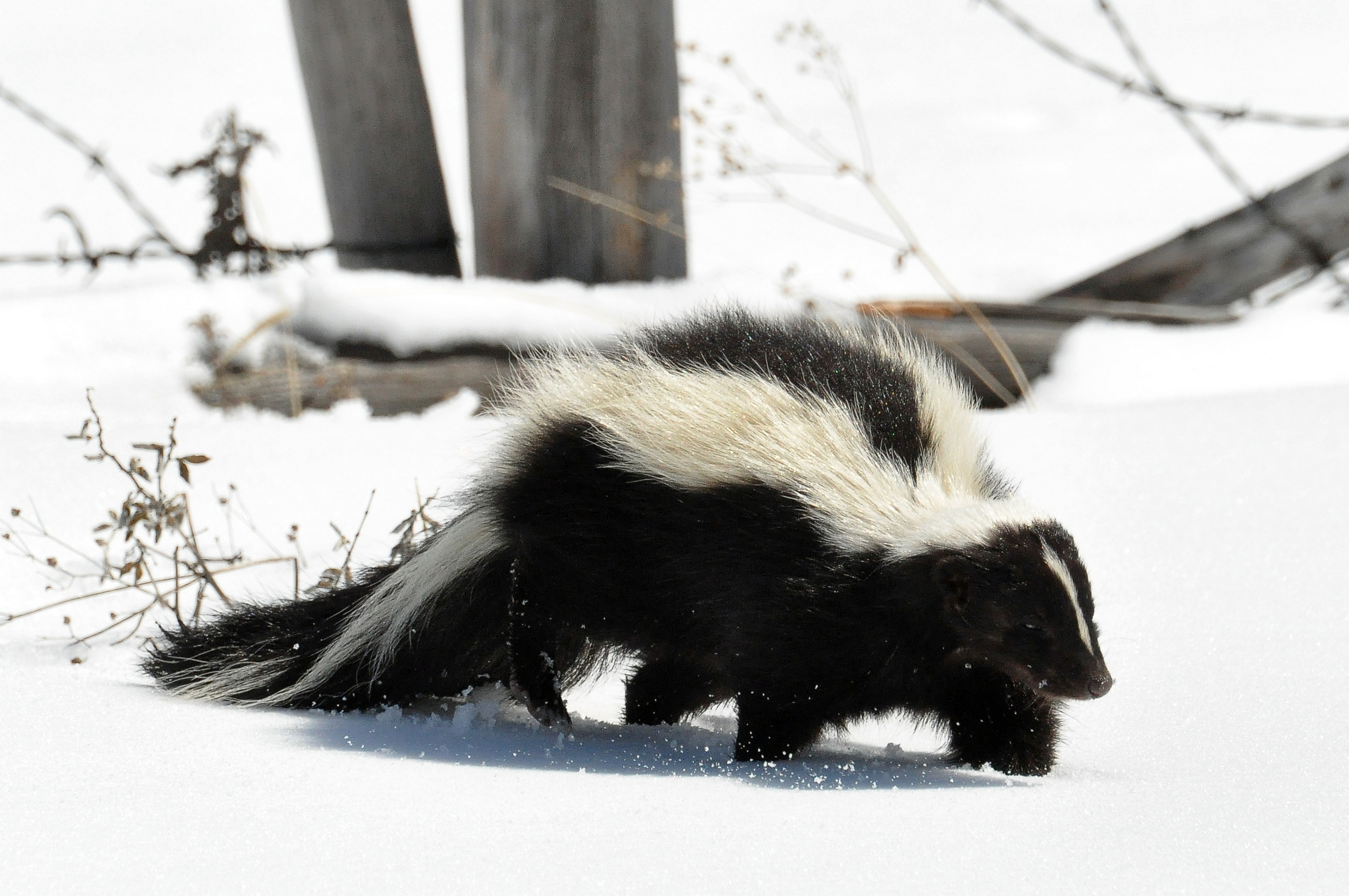 Lin spotted this Striped Skunk from our Honda CR-V at highway speed while we were southbound on ID Highway 20 from West Yellowstone MT to Moose WY in mid-April 2010. The more direct route from Yellowstone National Park to Grand Teton National Park via Yellowstone's South Entrance was still closed by snow. Given our avocation as wildlife photographers devoid of species bias, we quickly pulled over and grabbed our cameras. The skunk was foraging in snow along a stream that crossed the highway, where a concrete bridge abutment provided some measure of safety. It seemed to pay us no mind when, after taking a few photos while crouching behind the abutment, we ventured onto the snow in cautious pursuit. We followed at a distance of 50 feet (15 m) until the skunk made a meandering U-turn and began closing the distance between us at an uncomfortable pace. Always the thoughtful one, Lin pointed out that the skunk seemed more agile than I in knee-deep snow, which triggered a tactical retreat on my part. But not before getting this shot and even a little bit of video from about 20 feet (6.1 m). That prompted some concern from Lin over the safety of her Nikon D-90, which I was using at the time, so I bid farewell to the skunk and returned to the car. In hindsight, we must have provided quite a spectacle for passersby as we trailed the skunk across the snow, cameras and tripod in hand. Things might have ended differently if the skunk had objected to our curiosity, but as things turned out the encounter yielded a fun and memorable addition to our species list.